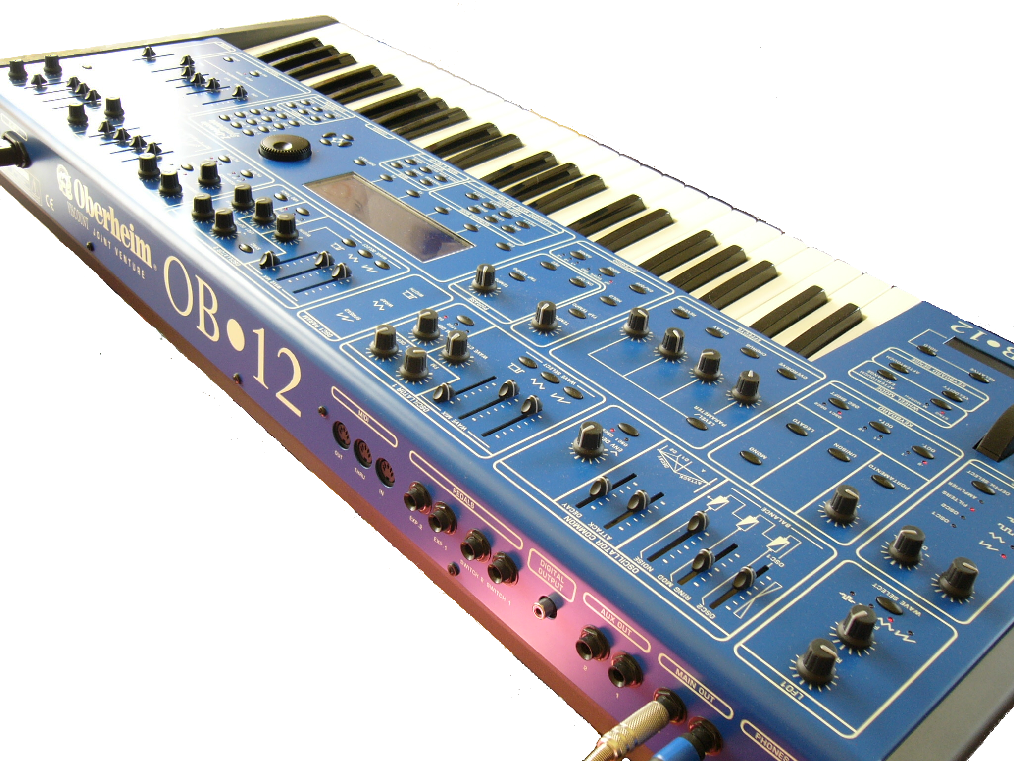 Oberheim-Viscount OB-12 Synthesizer